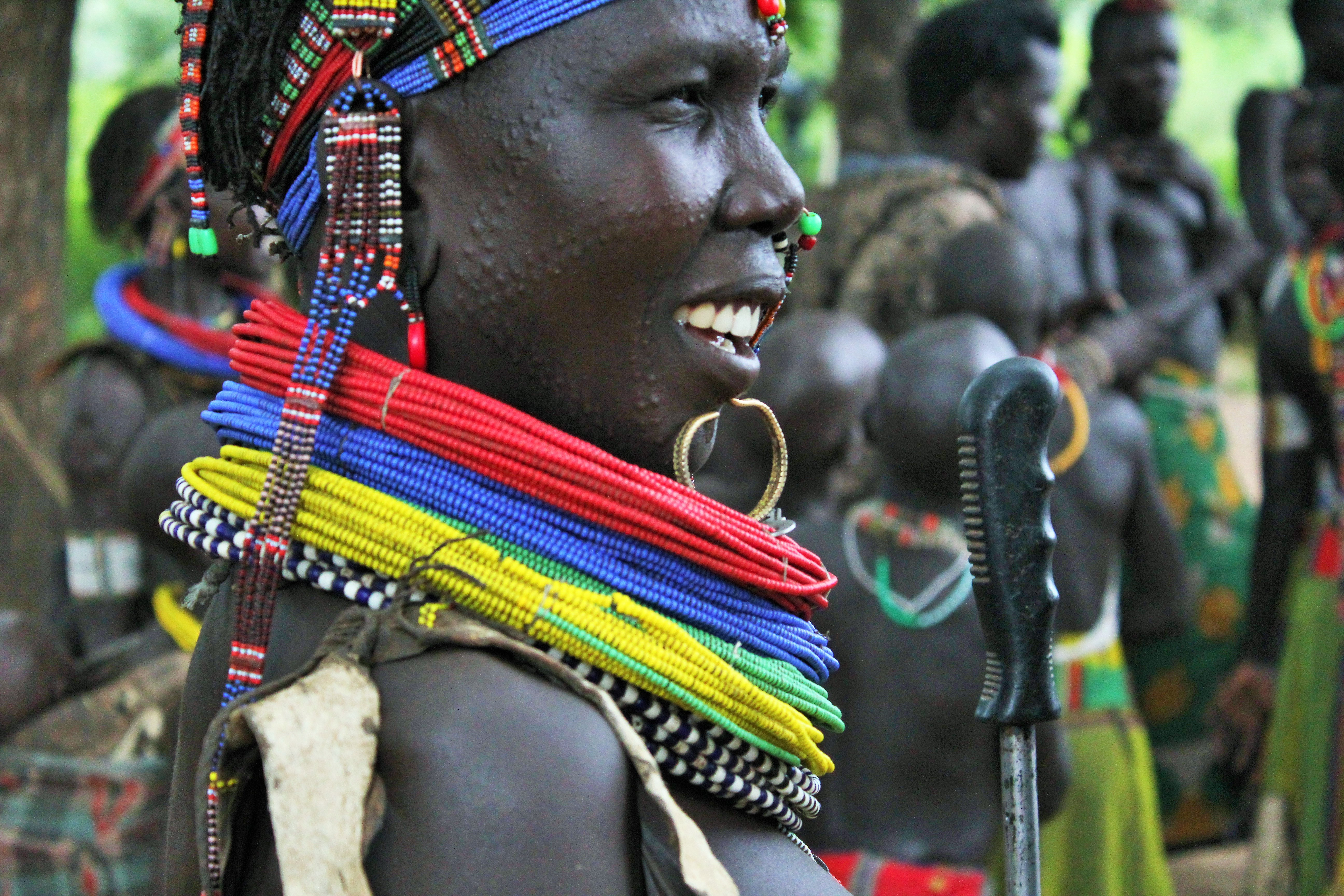 Body tattooing and fashion of a traditional East African nomadic woman This is an image of music and dance from South Sudan